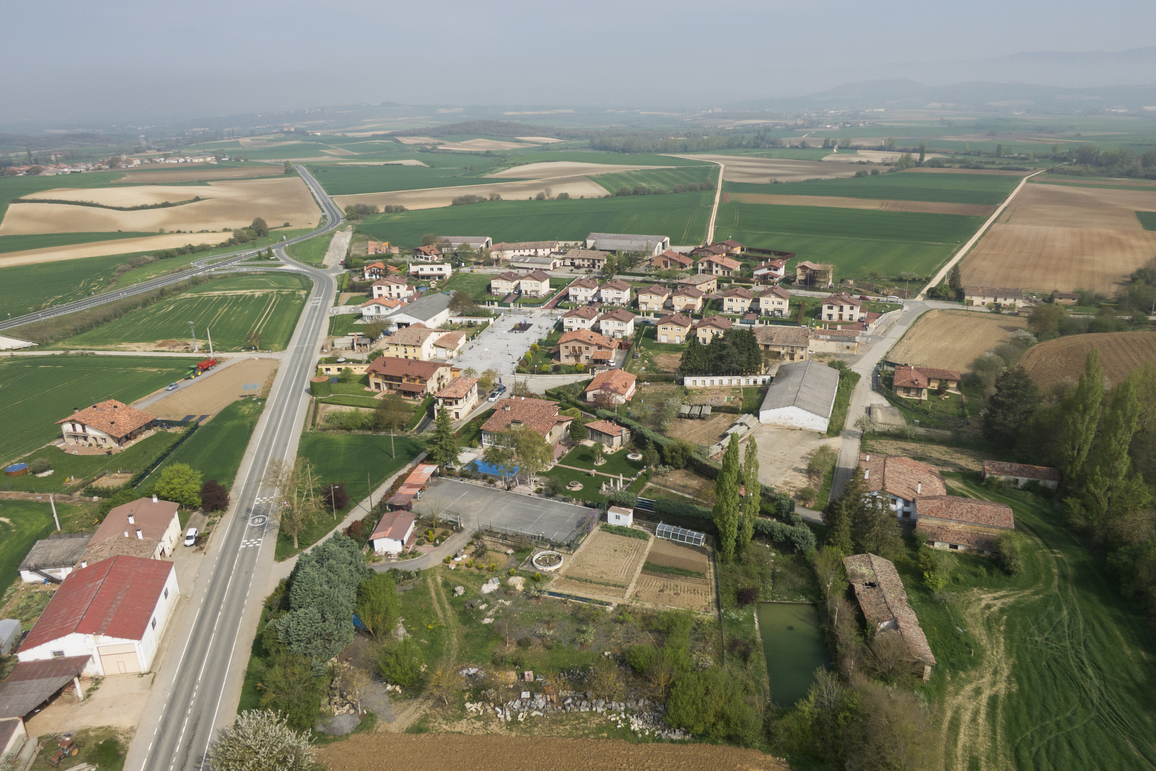 Egileta 01, Dulantzi, Araba-Álava, Basque Country